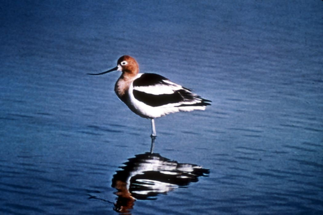 American Avocet, Recurvirostra americana, Alaska